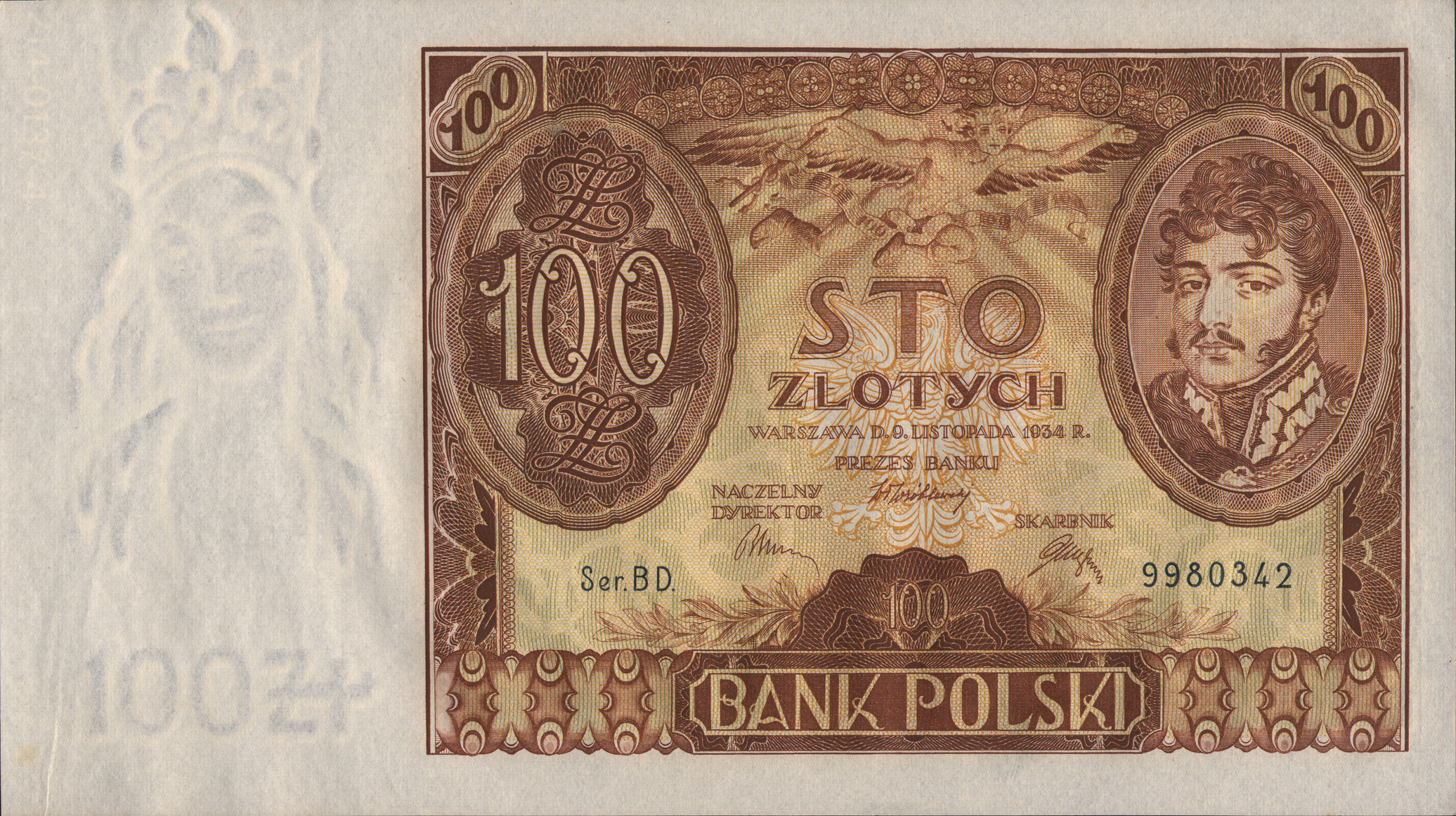 Polish 100 złoty banknote 1934